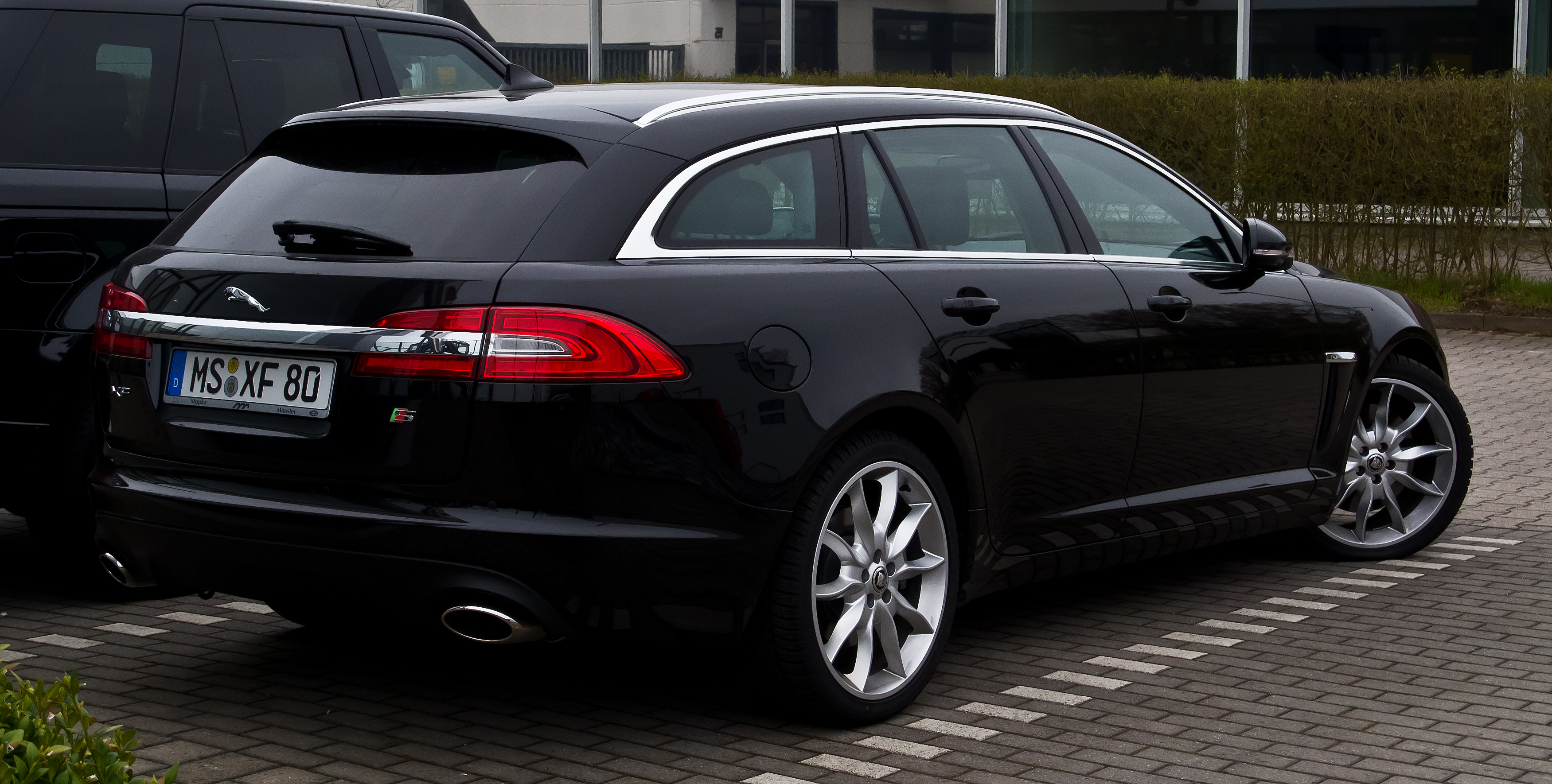 Jaguar XF Sportbrake 3.0 D-S (Facelift)